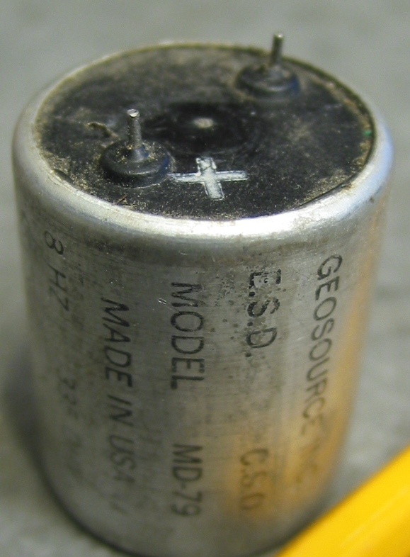 This image is of a geophone, used to detect vibrations, specifically in the earth. It is made by Geosource Inc. It is a Model MD-79, Made in USA, 8Hz, 335 ohm. It is listed with a "MODIFIED" date of 12-9-82. This image was taken by Andrew Baker on August 11th, 2009. IFU request, Image released by author into the public domain [1]